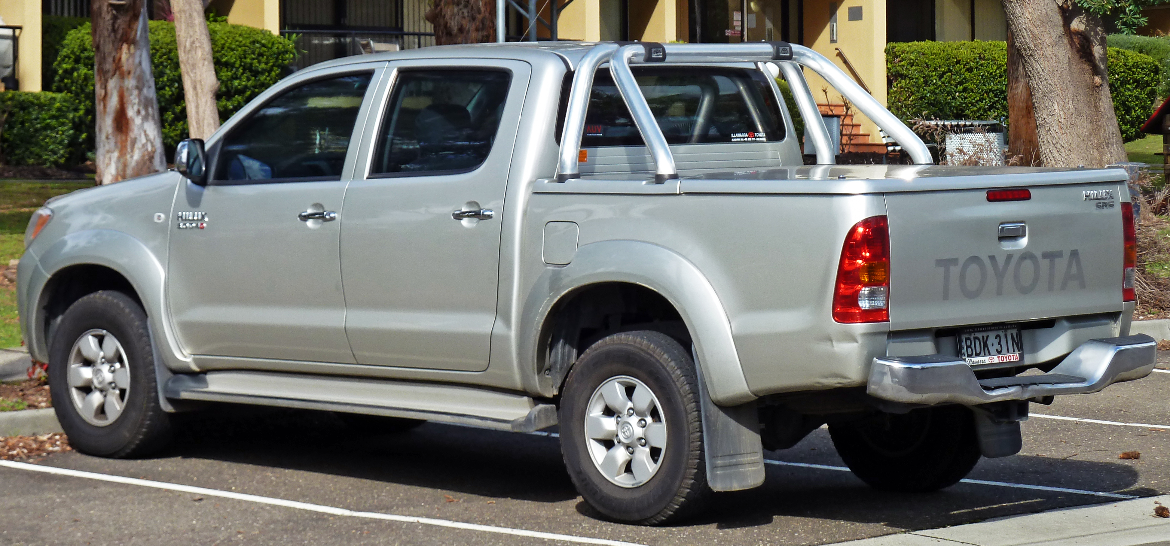 2005–2008 Toyota HiLux (KUN26R) SR5 4-door utility. Photographed in Sylvania, New South Wales, Australia.